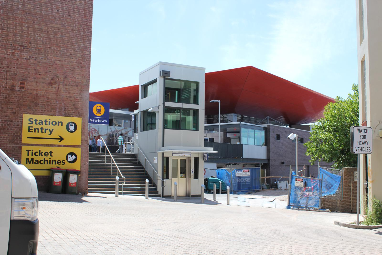 side entrance from quiet lane